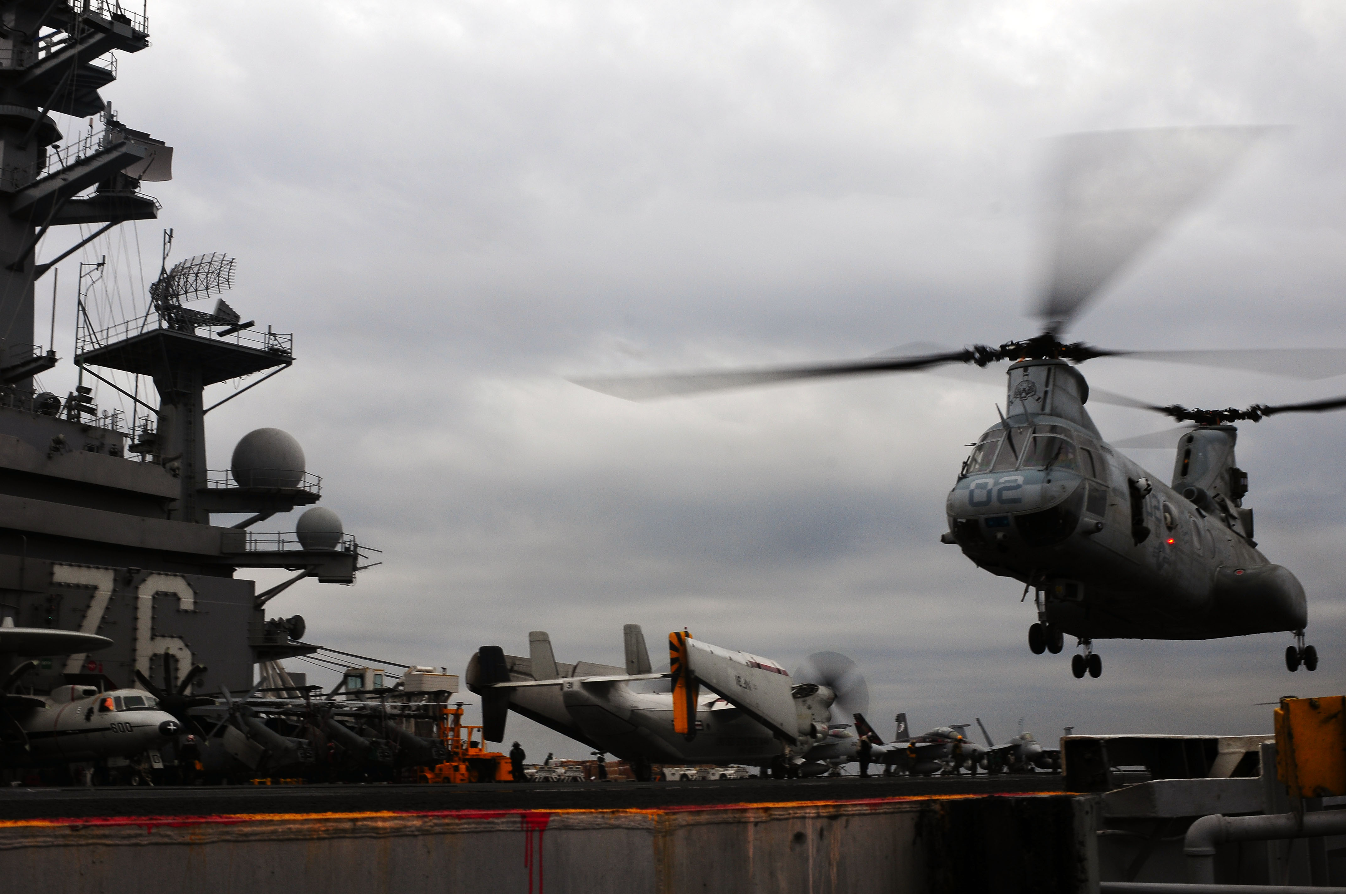 PACIFIC OCEAN (March 21, 2011) A CH-46E Sea Knight helicopter assigned to the Flying Tigers of Marine Medium Helicopter Squadron (HMM) 262, Marine Aircraft Group (MAG) 36, 1st Marine Aircraft Wing (1st MAW), lifts off the flight deck of the aircraft carrier USS Ronald Reagan (CVN 76). Ronald Reagan is operating off the coast of Japan providing humanitarian assistance as directed in support of Operation Tomodachi. (U.S. Navy photo by Mass Communication Specialist 3rd Class Alexander Tidd/Released)